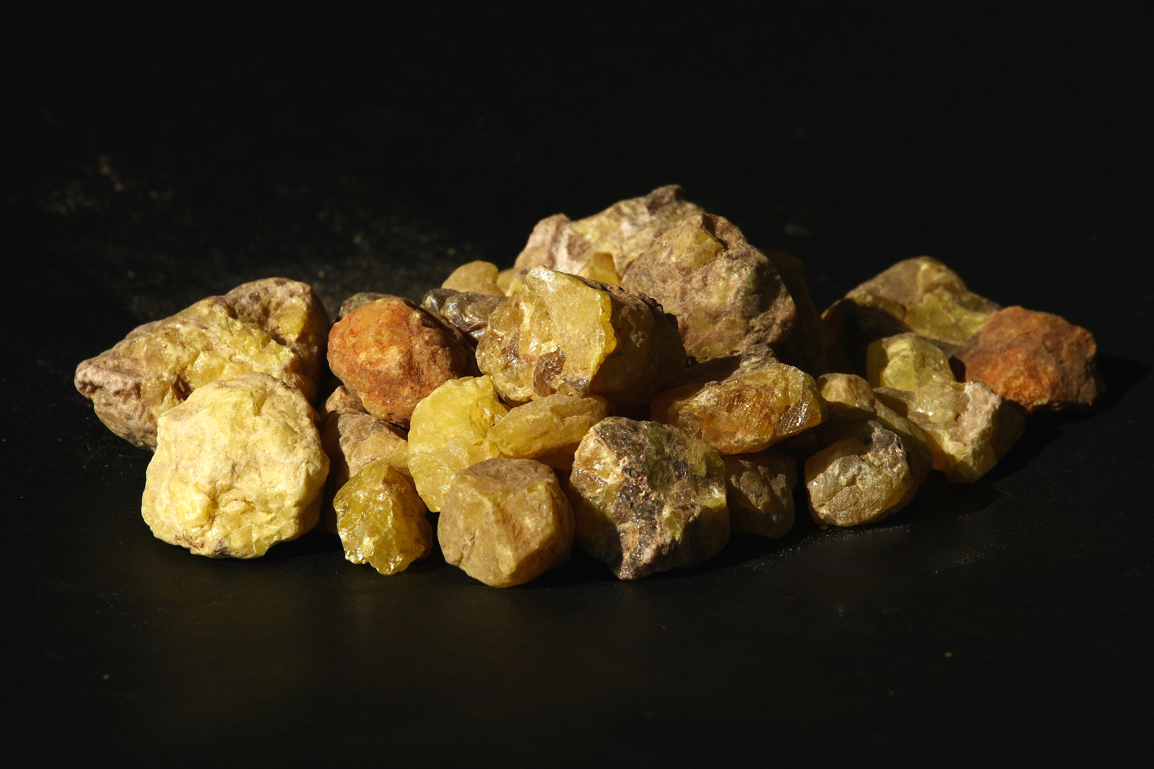 Mineral Sulfur.